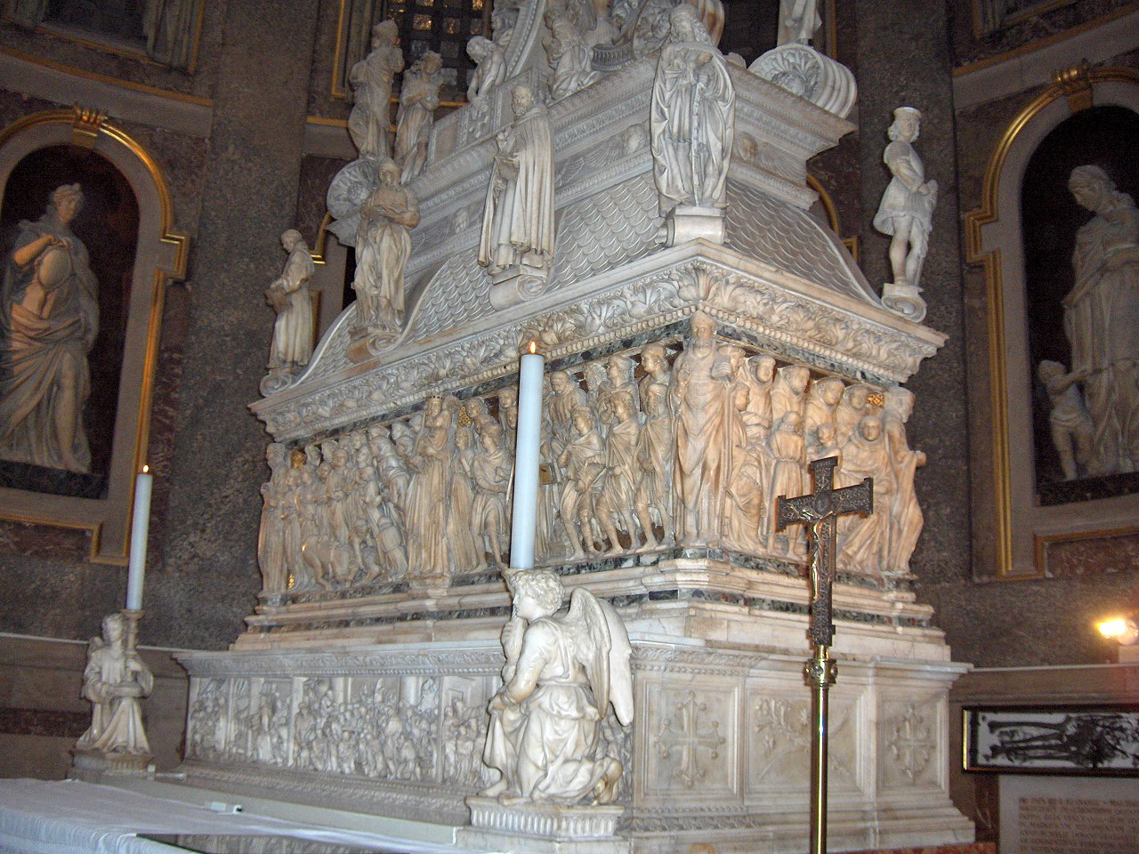 Frontside of the Ark of Saint Dominic, Basilica of Saint Dominic, Bologna, Italy